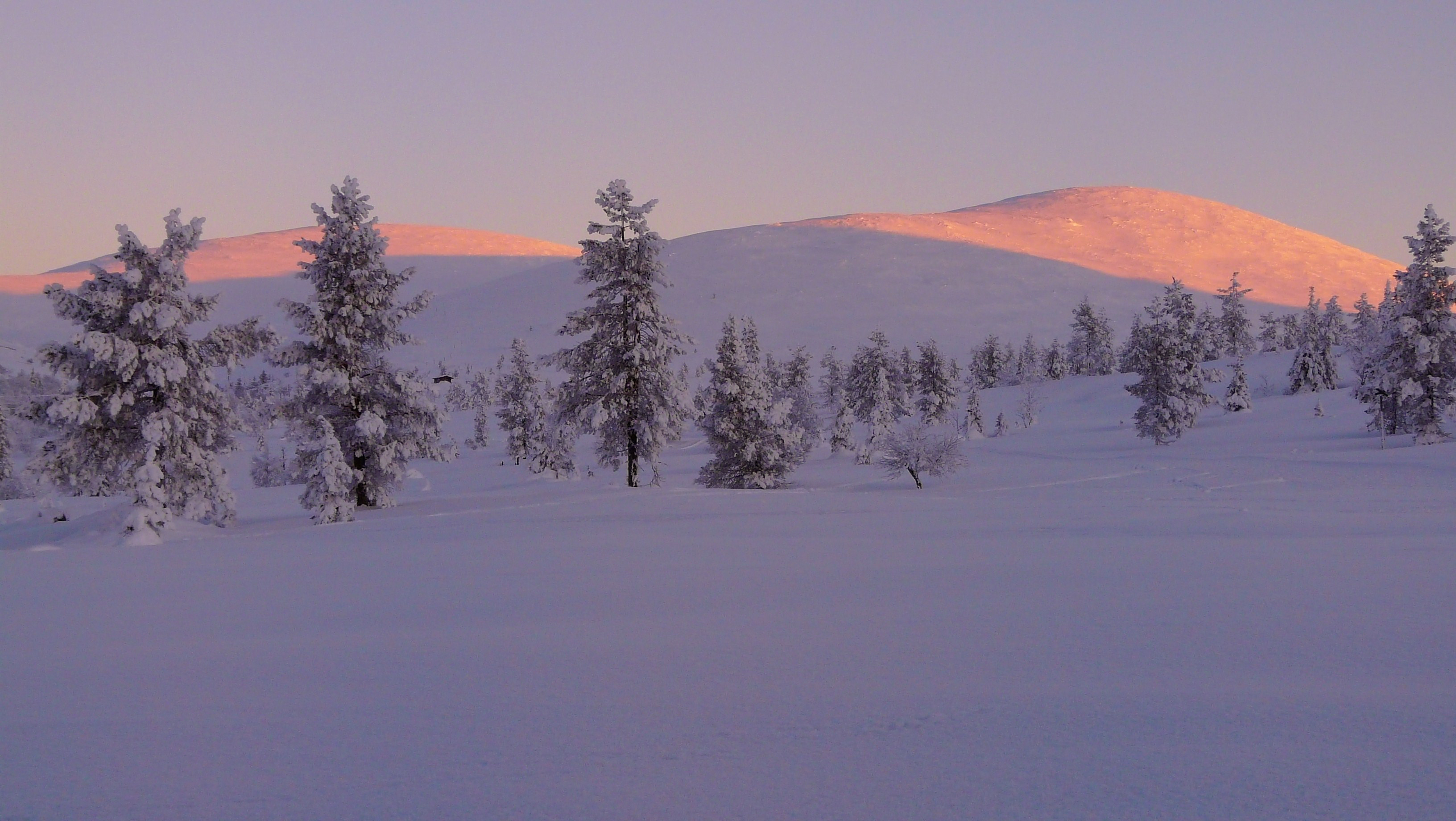 A morning view to Taivaskero and Pyhäkero (summits of Pallastunturi) from the south from Lapland Hotel Pallas in 2009 February.